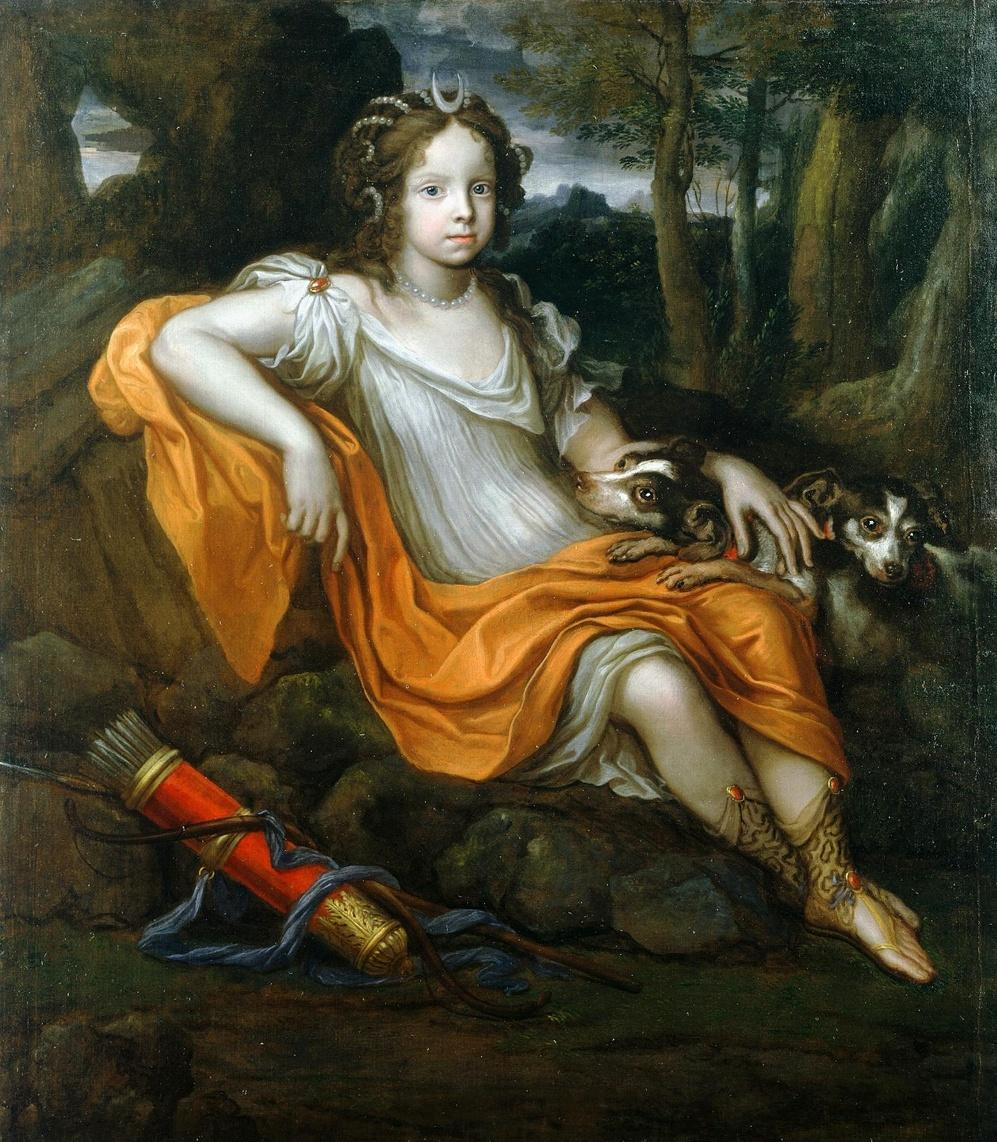 Portrait of Duchess Charlotte Felicitas of Brunswick-Lüneburg (1671-1710) as a child depicted as Diana